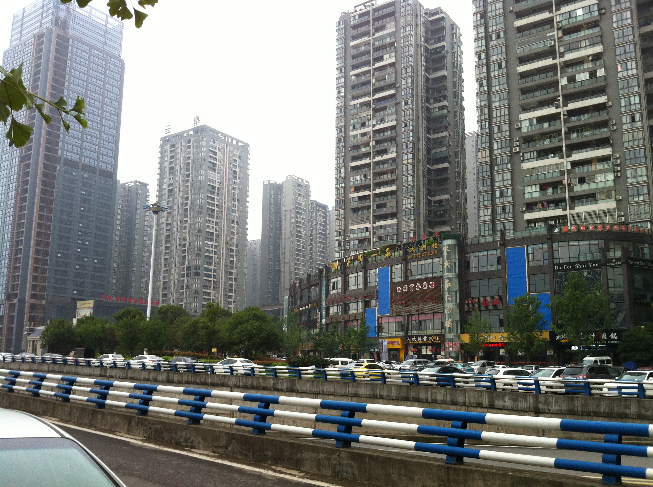 Downtown of Jiangjin